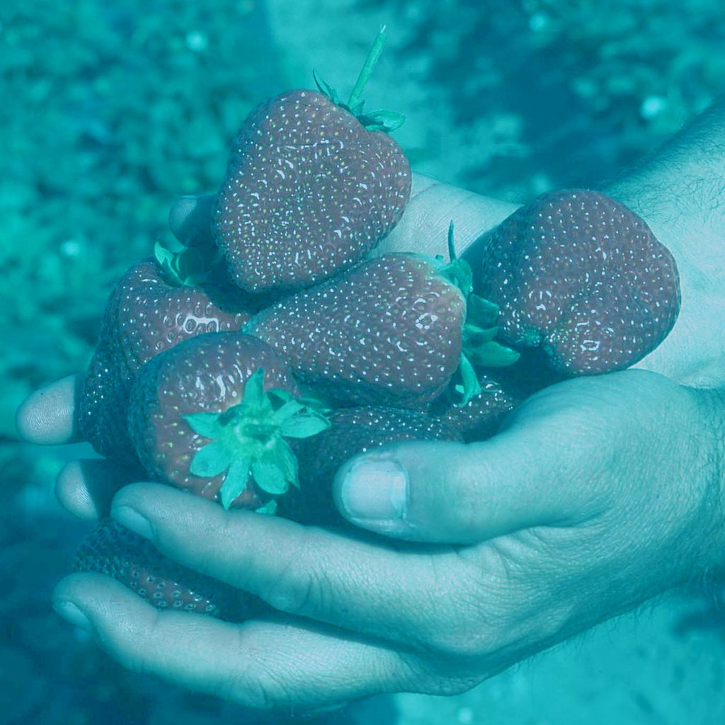 Photograph of hands holding strawberries, edited to remove red.